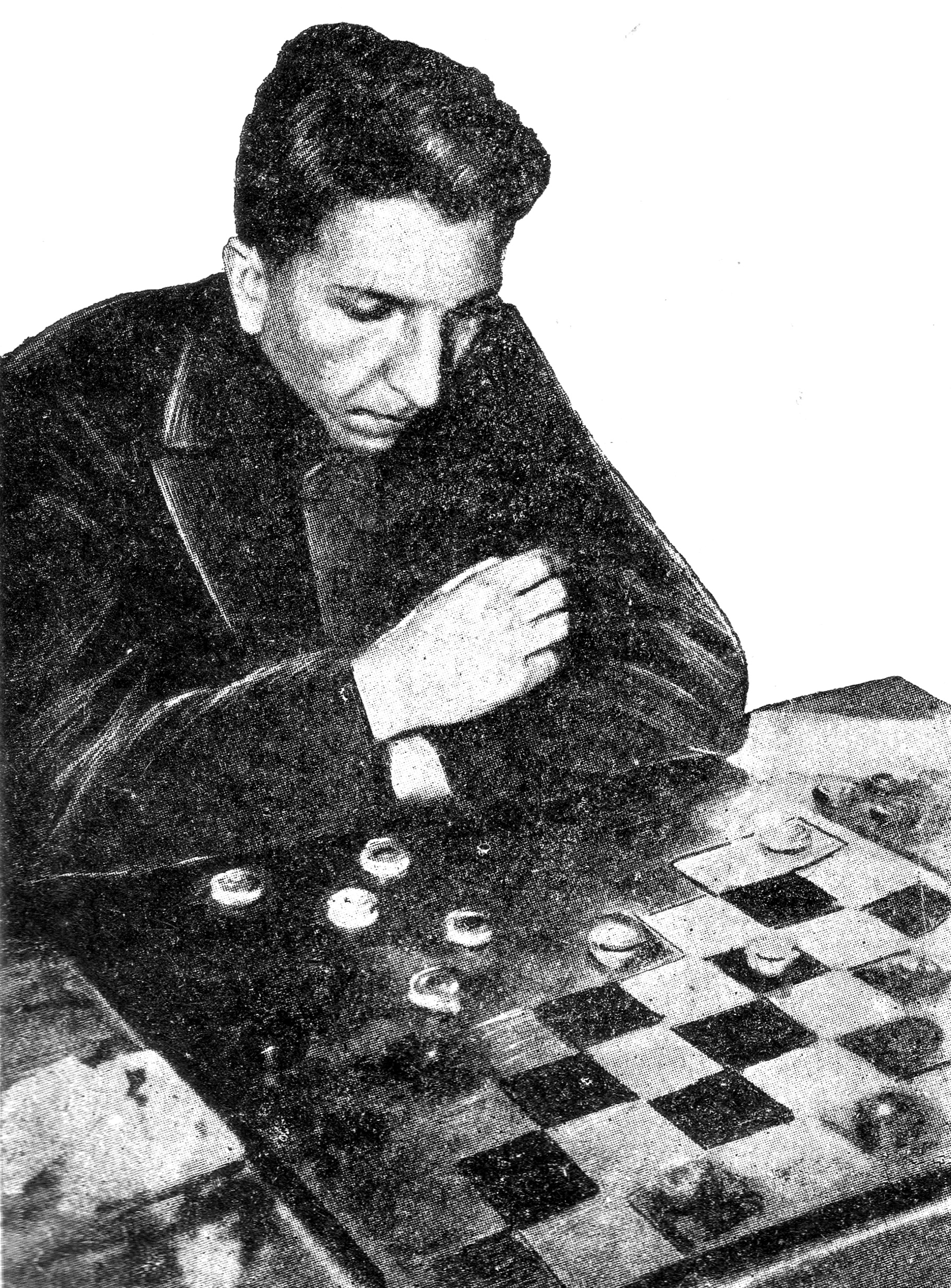 Russian draughts player Dmitri Shebedev.